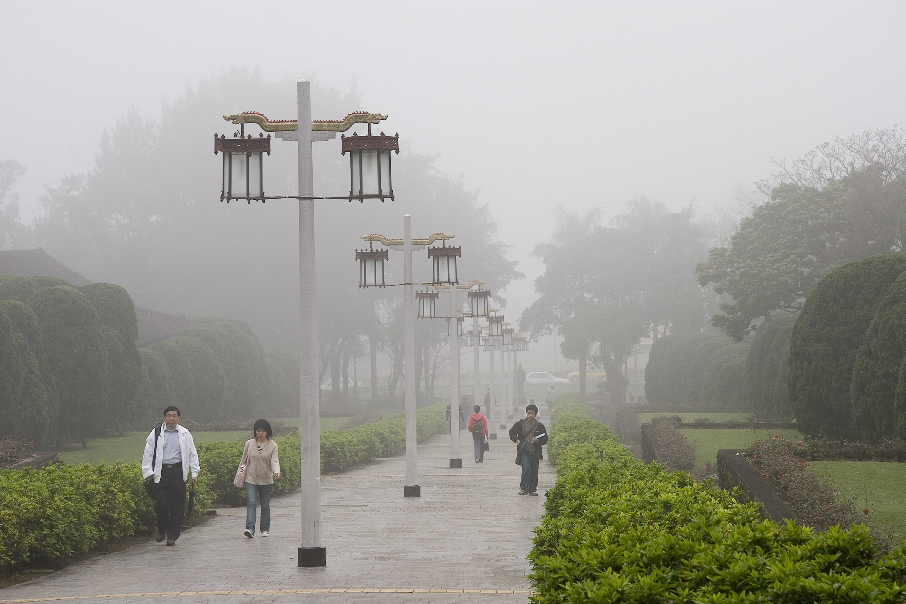 Tamkang University